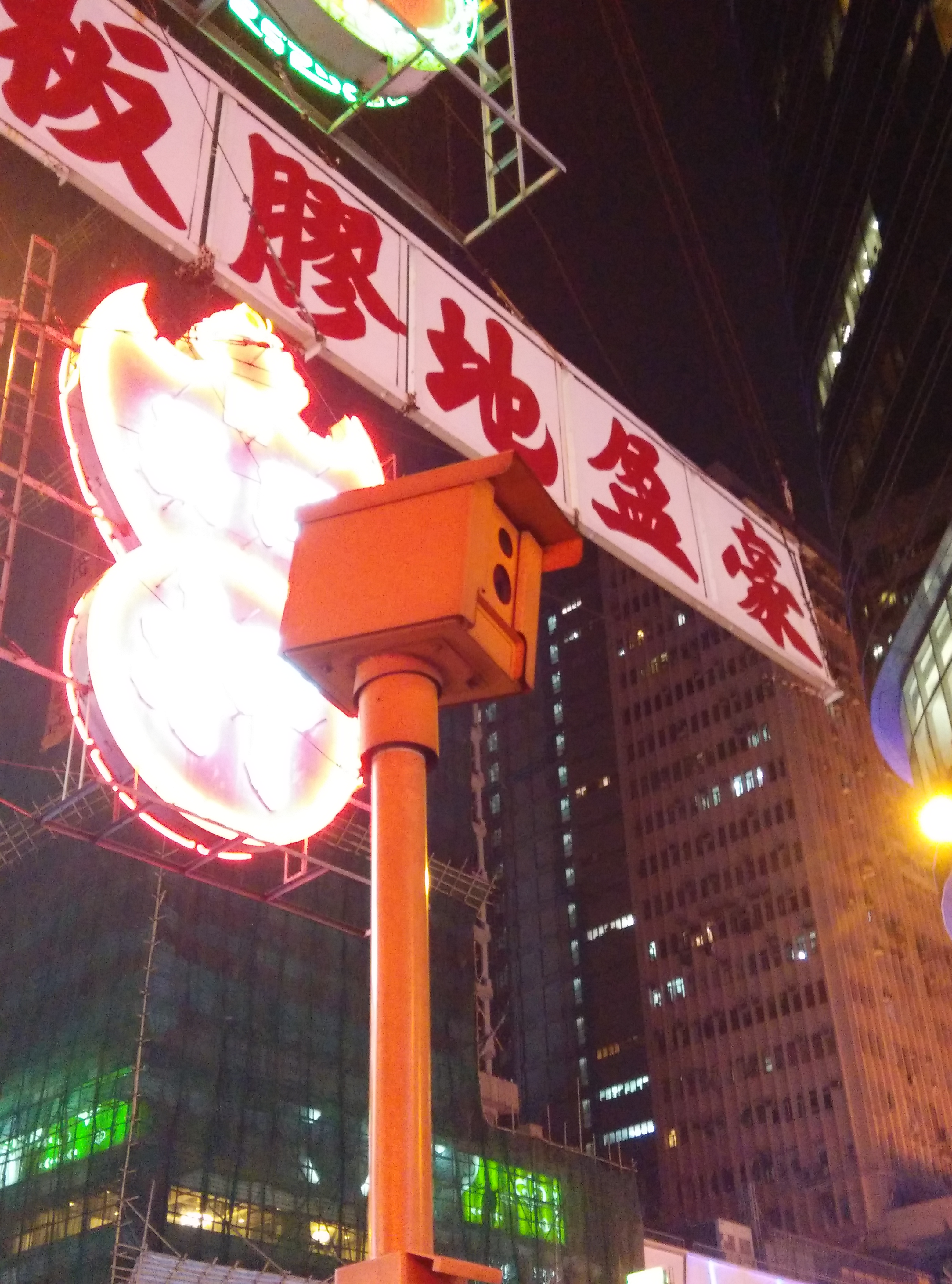 A Speed camera photographed in Mong Kok, Hong Kong, across Langham Place.